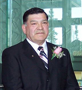 This picture of Tony was taken by family during his swearing in ceremony for Commissioner of the Northwest Territories.